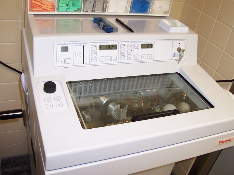 This is the frozen section room equivalent to the microtome which are unrefrigerated cutters we use upstairs to cut the routine paraffin embedded specimens.